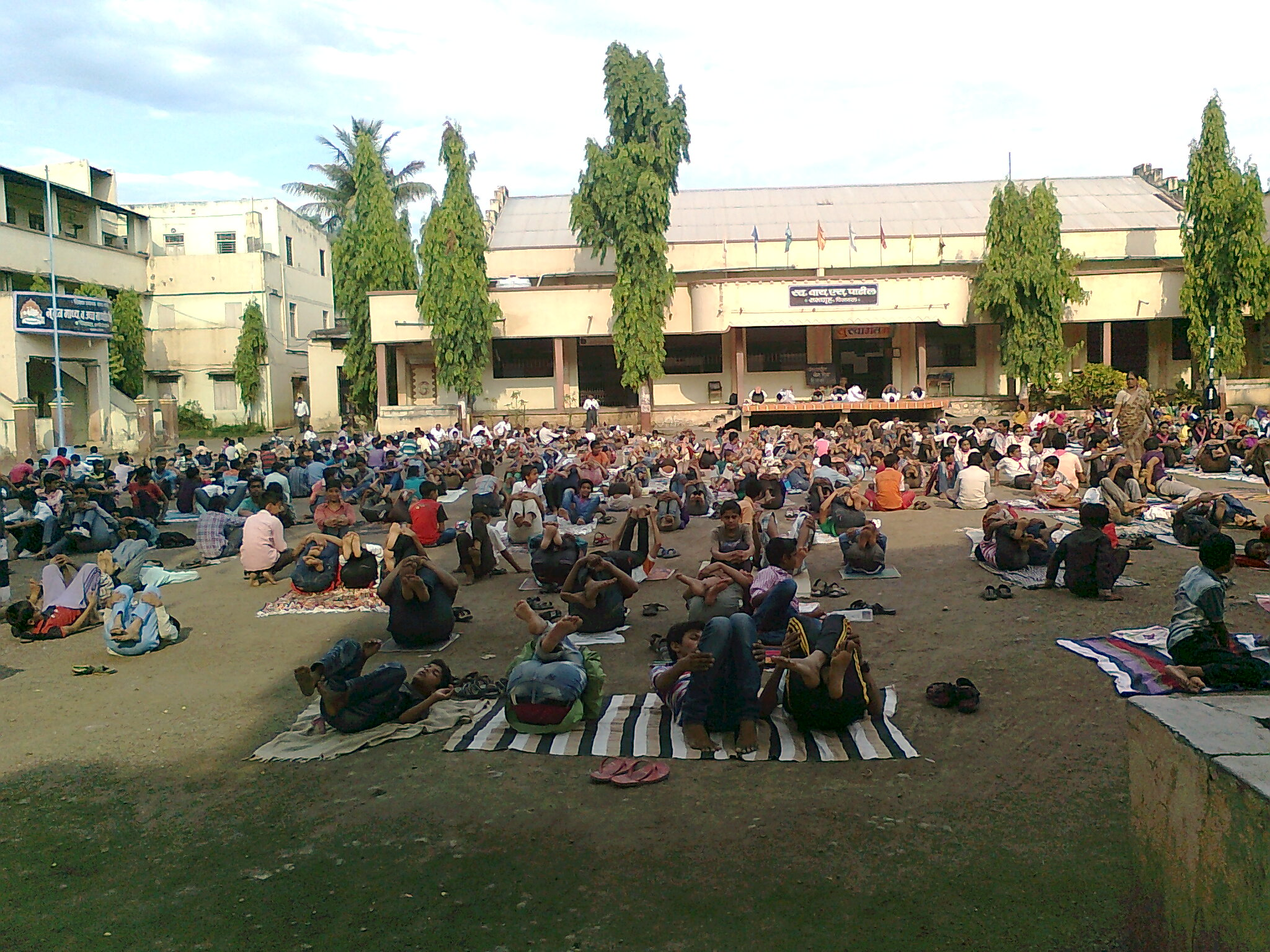 International Yoga Day observence in Nutan Madhyamik Vidyalaya in Chinawal village of Maharashtra, India